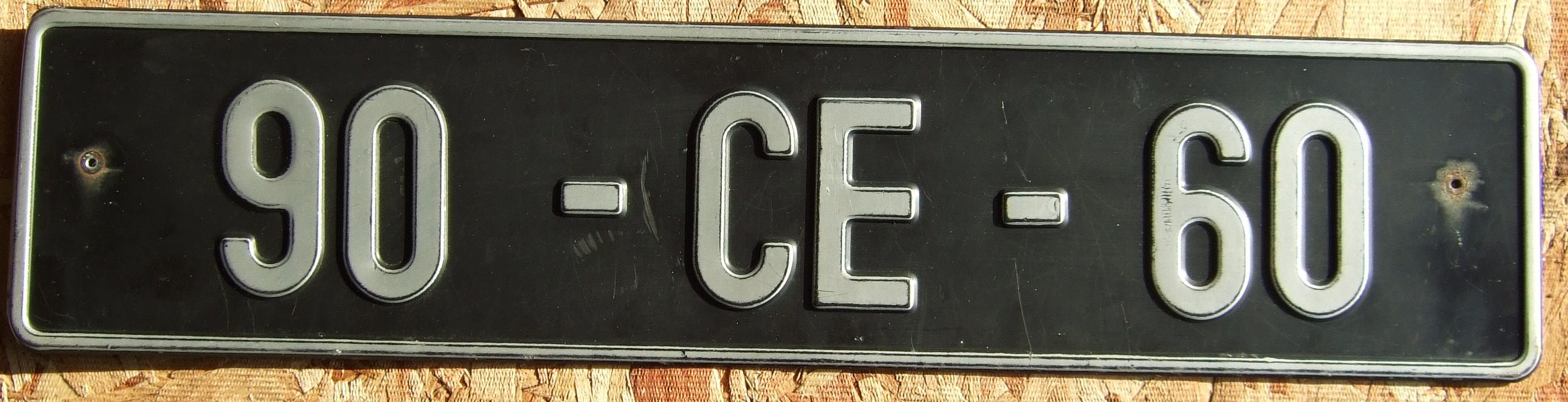 This Irish County Clare license plate is made in the old style of silver on black but uses the current numbering sequence of year of registration "90=1990" "CE" designated County Clare and "60" the registration number, a low one. This was the 60th plate registered in County Clare in 1990.